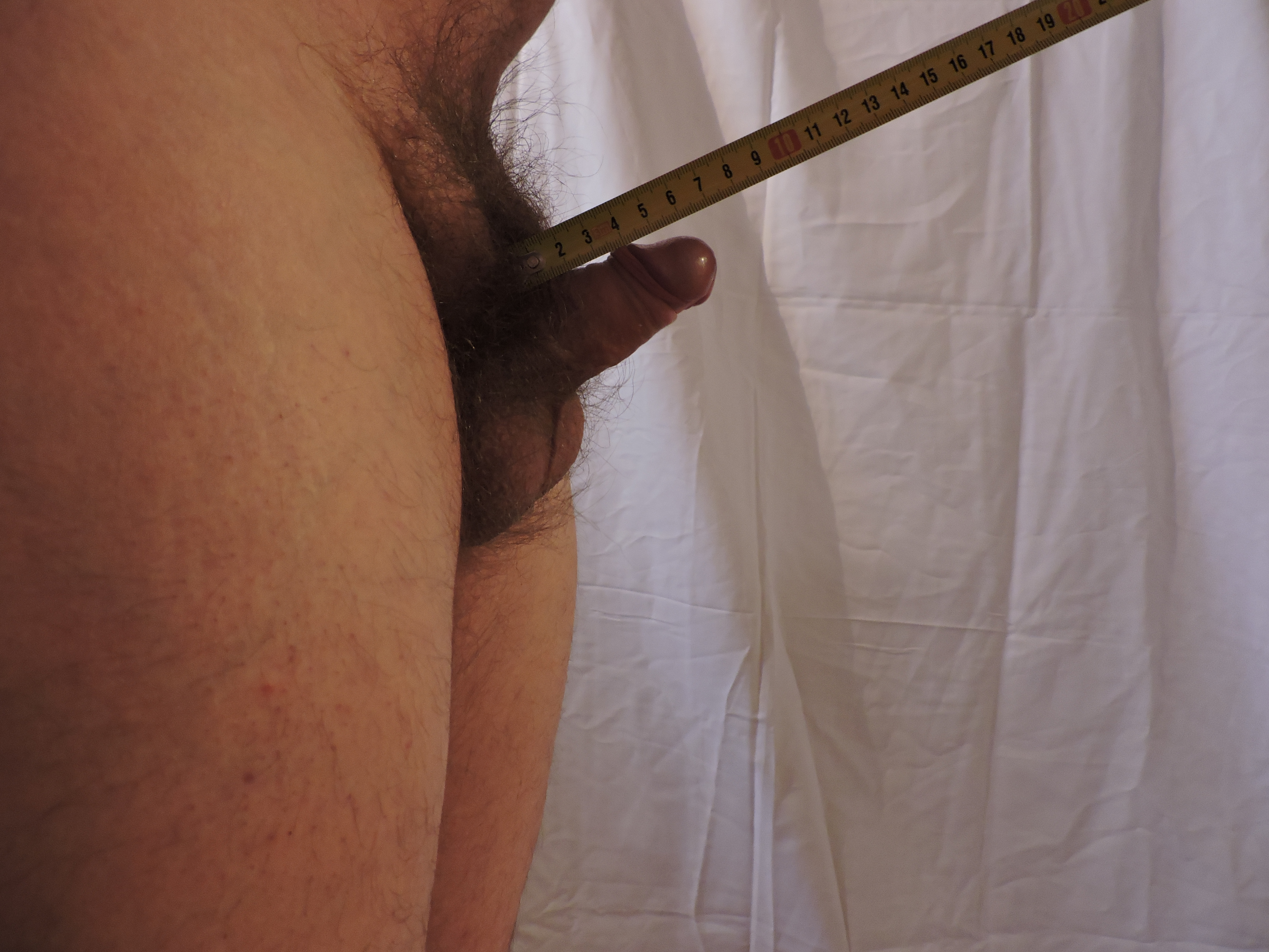 measuring a micro penis / mikropenis / minipenis